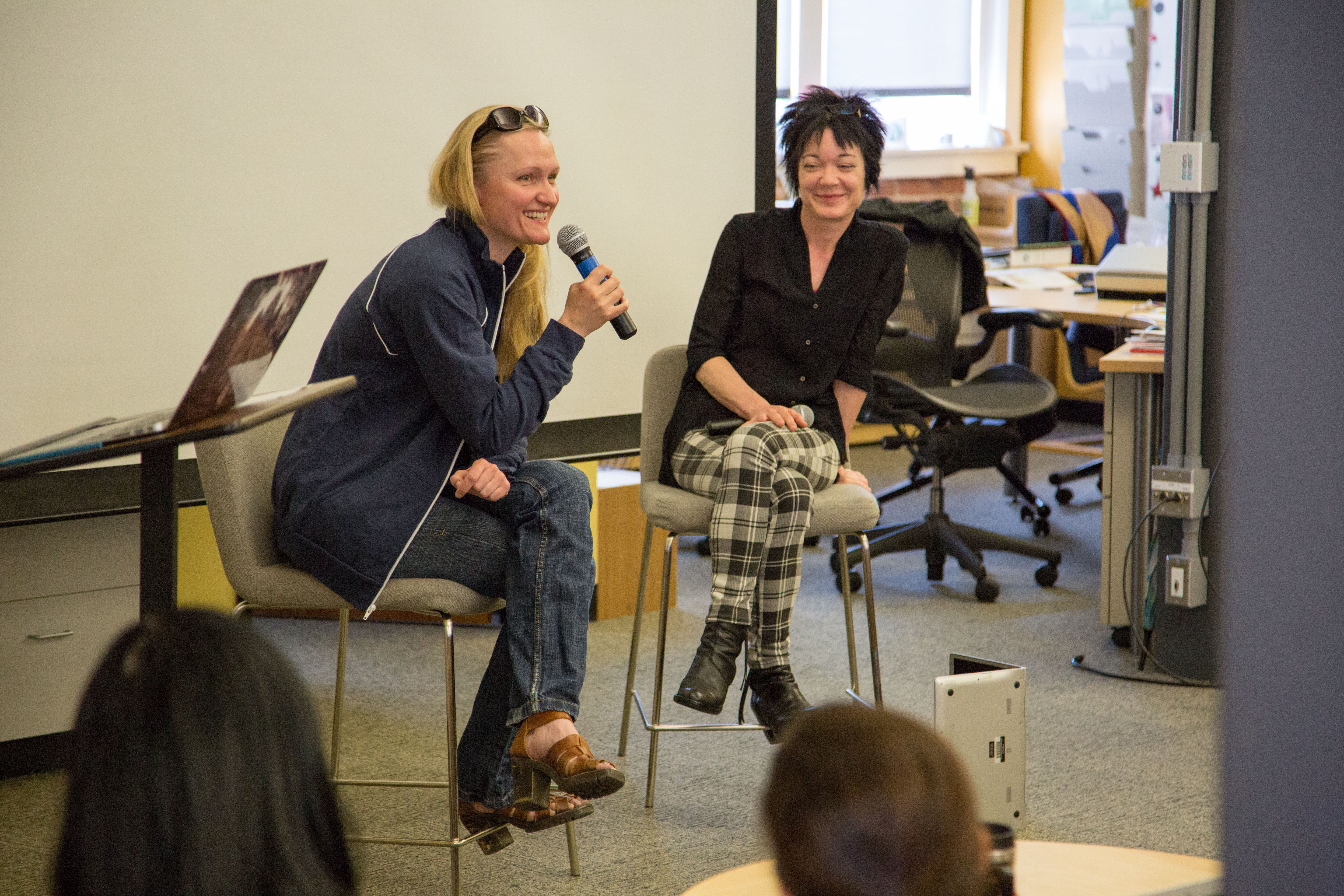 Wikimedia Foundation Monthly Metrics Meeting May 1, 2014